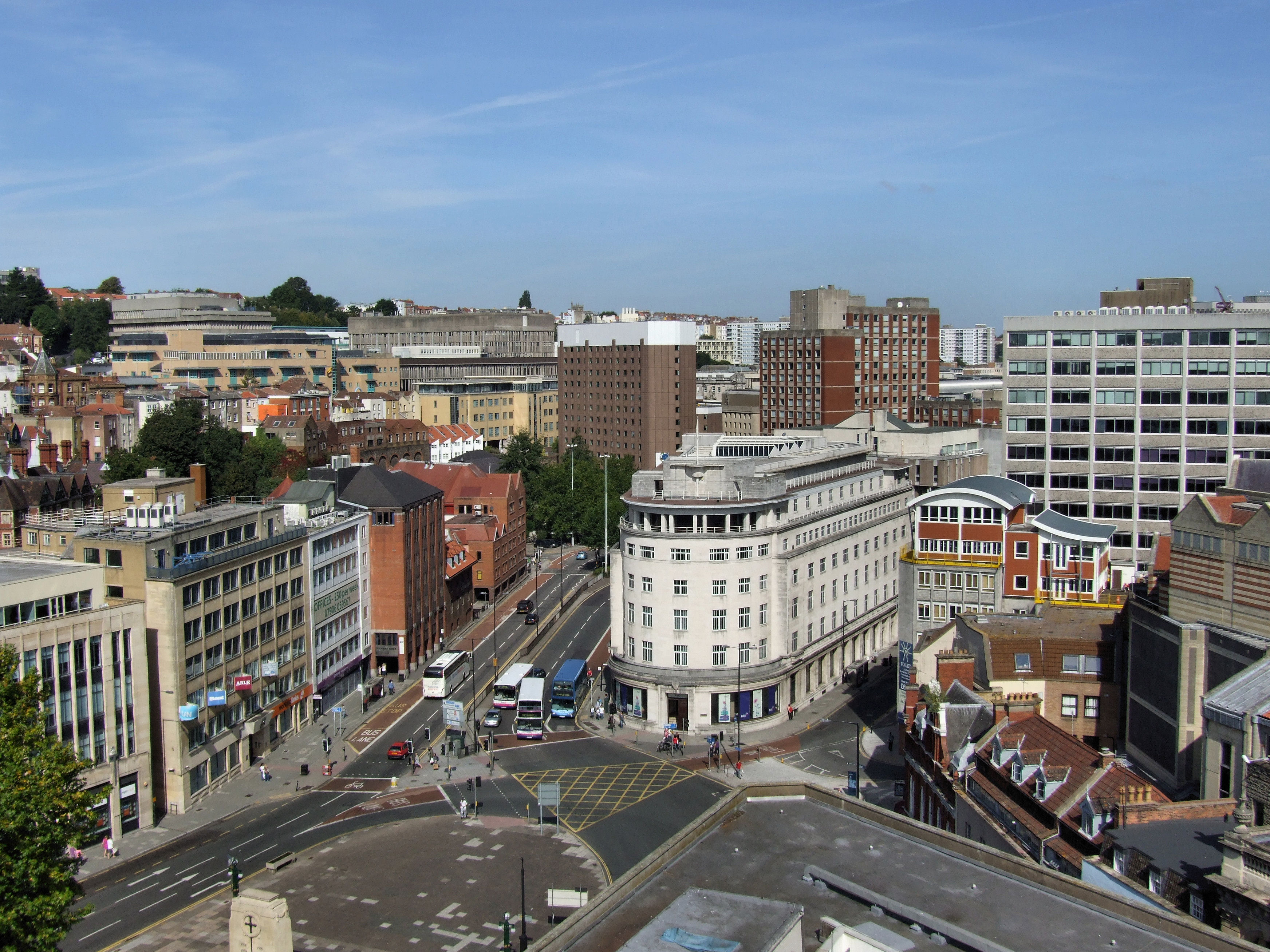 Looking north-west from the top of the tower of St Stephen, Bristol. The prominent light coloured modernist building in the centre is Electricity House, former headquarters of the South Western Electricity Board.